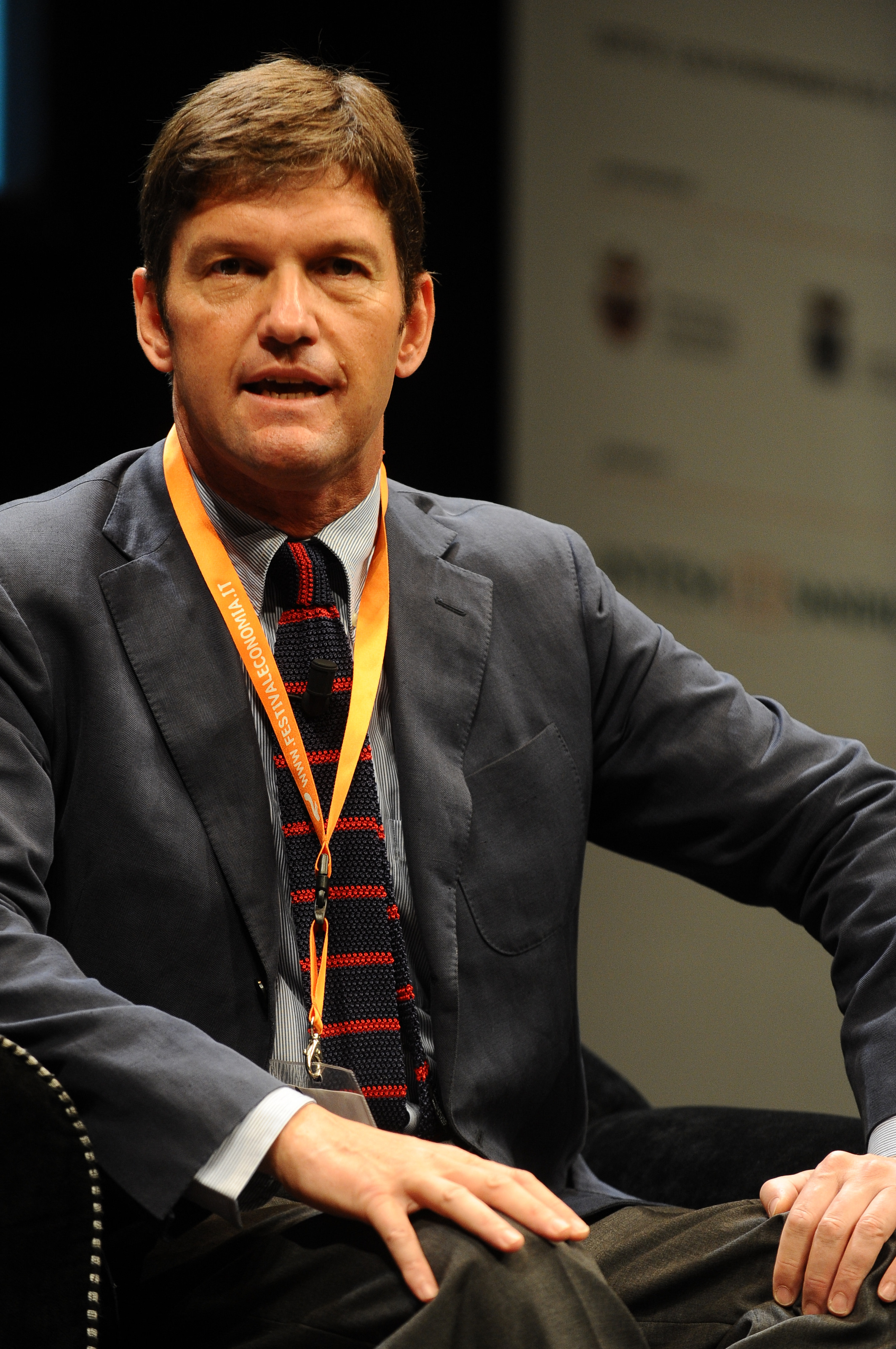 Festival of Economics 2012 - Trento